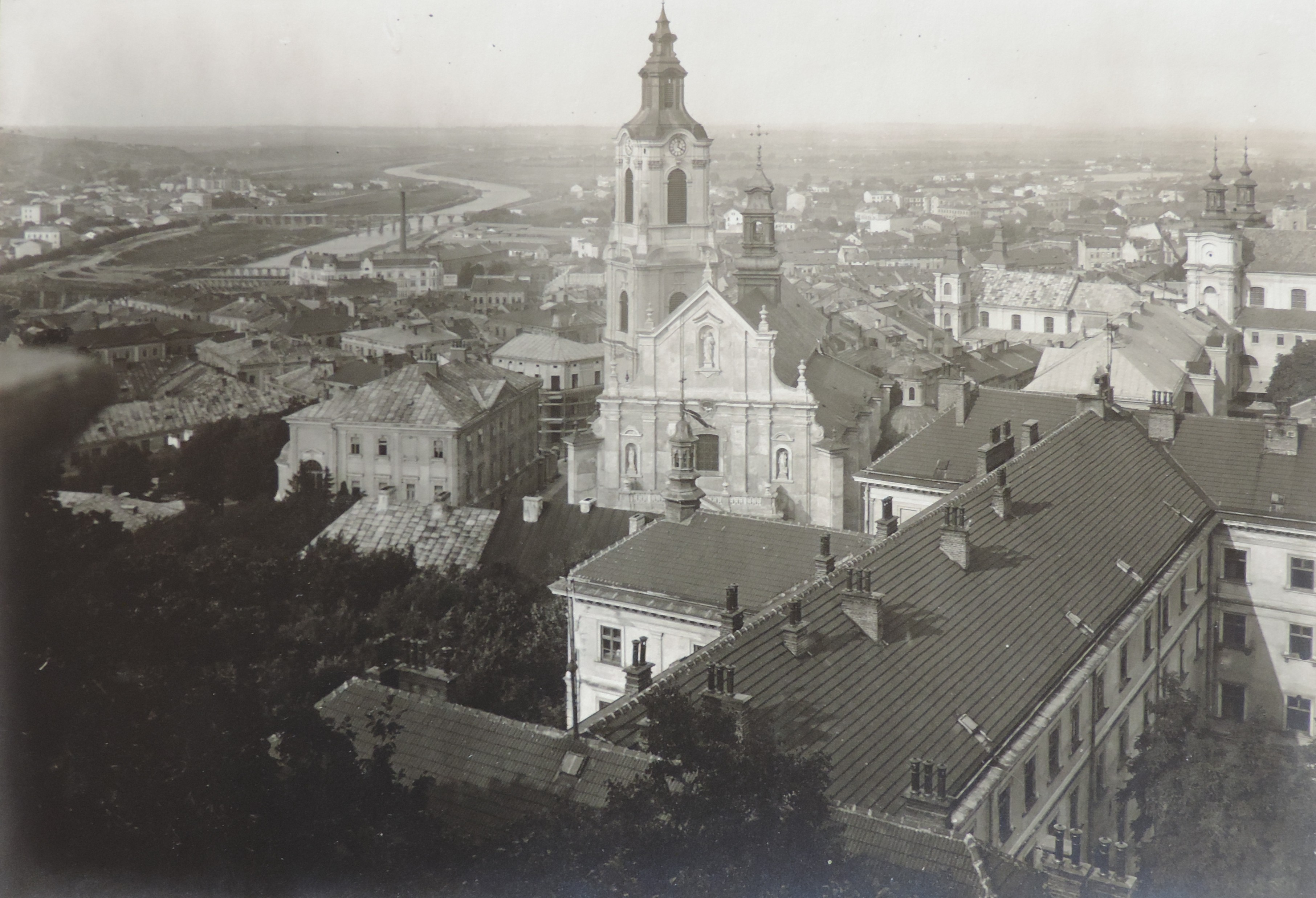 Historic military photos. View of Przemyśl.